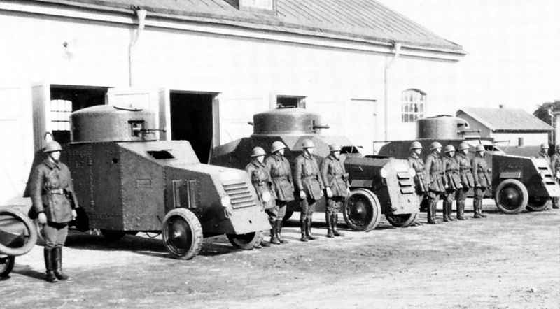 Swedish Pbil m/26 armoured car